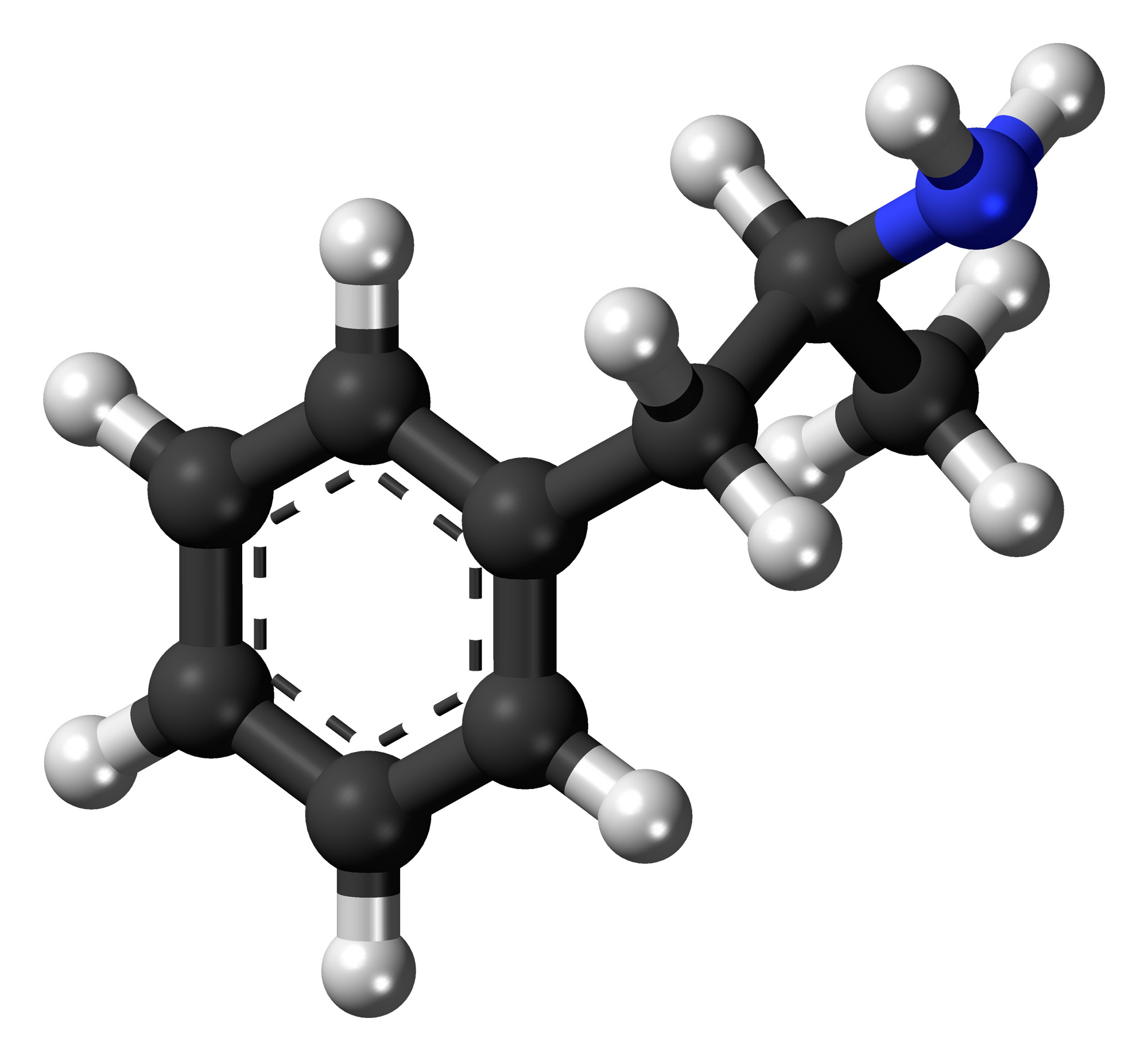 Ball-and-stick model of the amphetamine molecule. Many of its derivatives are psychoactive drugs. This image shows the D (dextrorotary) isomer. Colour code: Carbon, C: black Hydrogen, H: white Nitrogen, N: blue